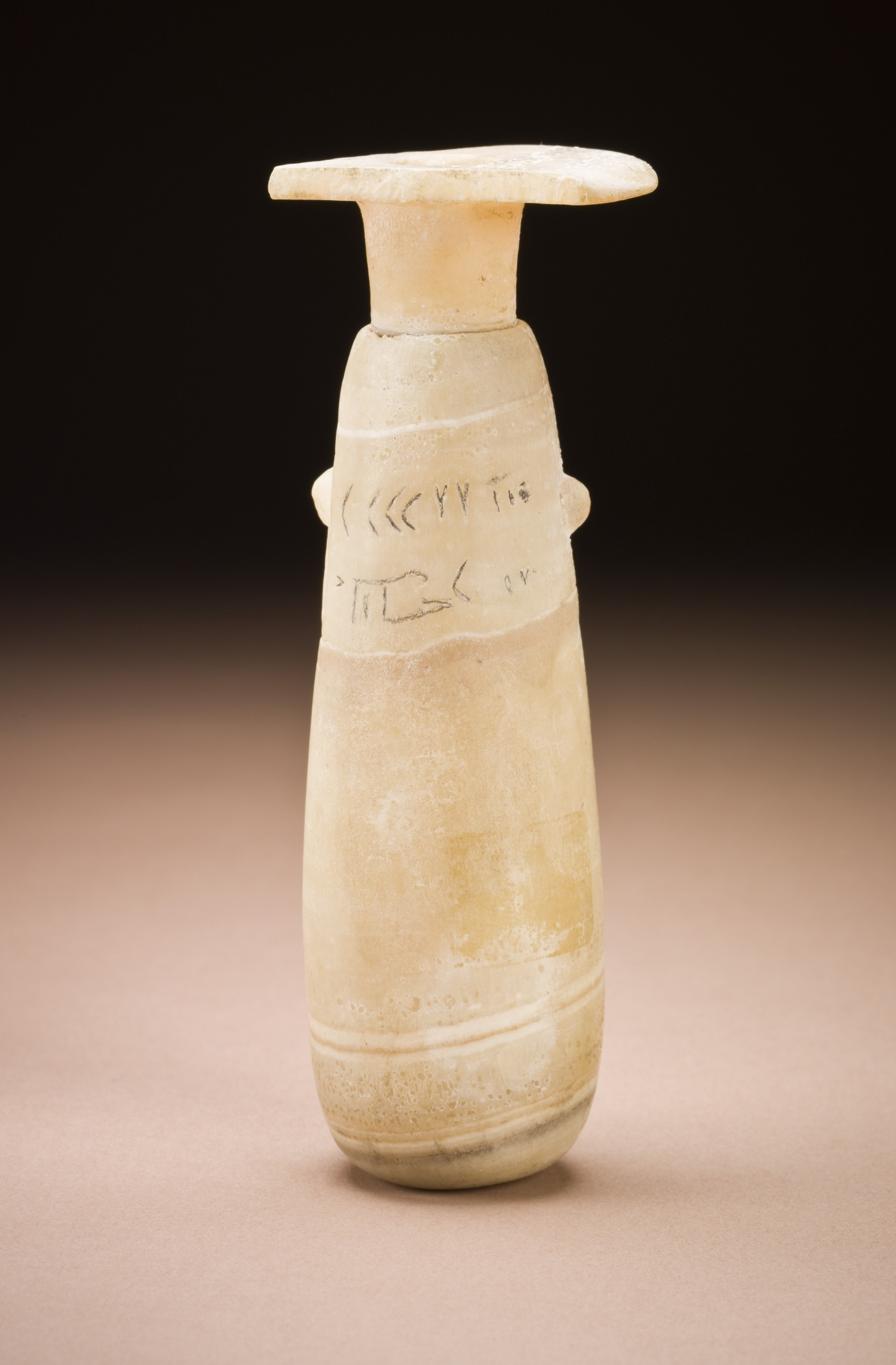 Egypt, 26th Dynasty (664 - 525 BCE) Furnishings; Serviceware Calcite Width: 4 7/16 in. (11.3 cm); Diameter: 1 7/8 in. (4.7 cm) Gift of Carl W. Thomas (M.80.203.14) Egyptian Art